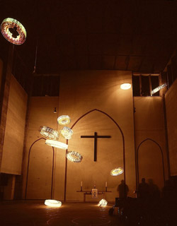 Installation „Freiheit!“, Christuskirche, Cologne, 2012